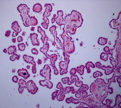 Microphotograph of HE stained section of normal choroid plexus. Orgininal magnification 100x